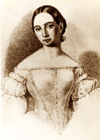 Portrait of Italian opera singer Luigia Abbadia (1821-1896)